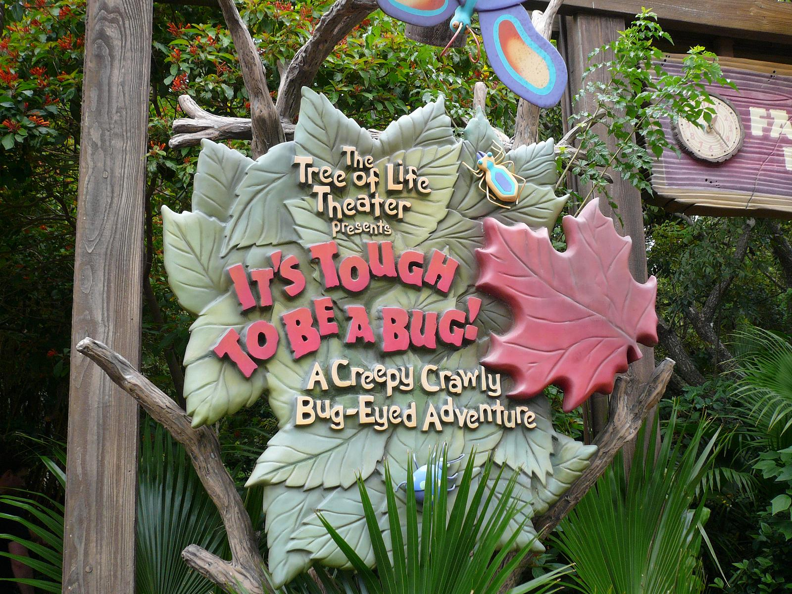 It's Tough to be a Bug Sign